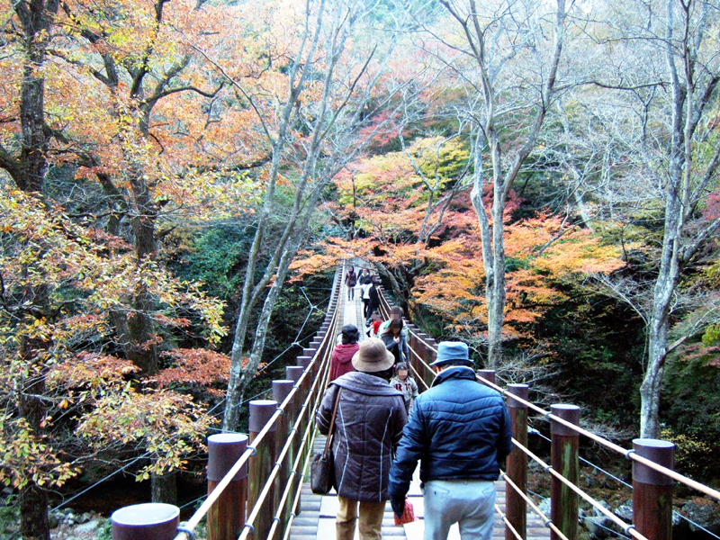 Hananuki valley Shiomi-taki bridge in autumn. Takahagi, Ibaraki, Japan.